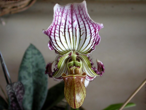 Paphiopedilum